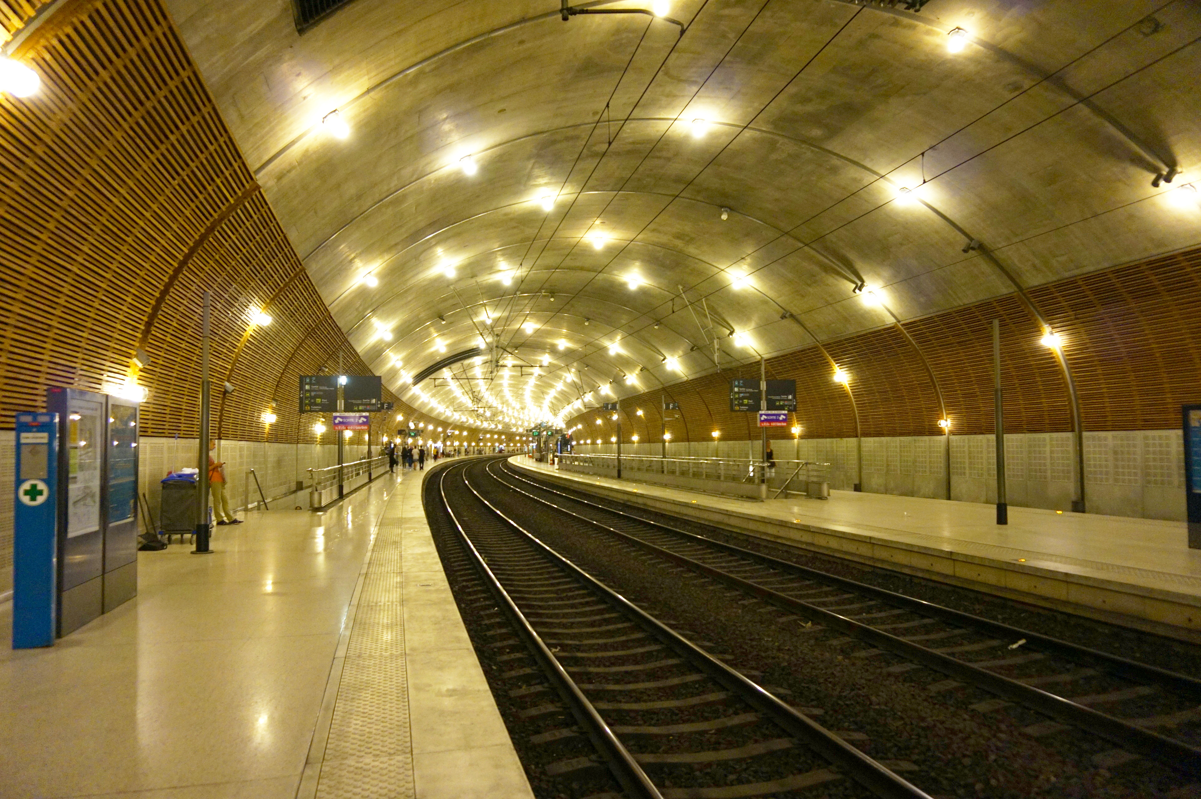 Monaco railway station.This photograph was taken with a Sony ILCE-5000